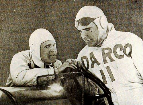 Still from the American film The Roaring Road (1919) with Guy Oliver and Wallace Reid, on page 23 of the March 1919 Film Fun.